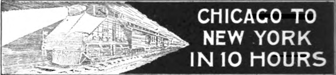 Chicago – New York Electric Air Line Railroad advertisement showing a proposed electric locomotive and a running time of 10 hours.